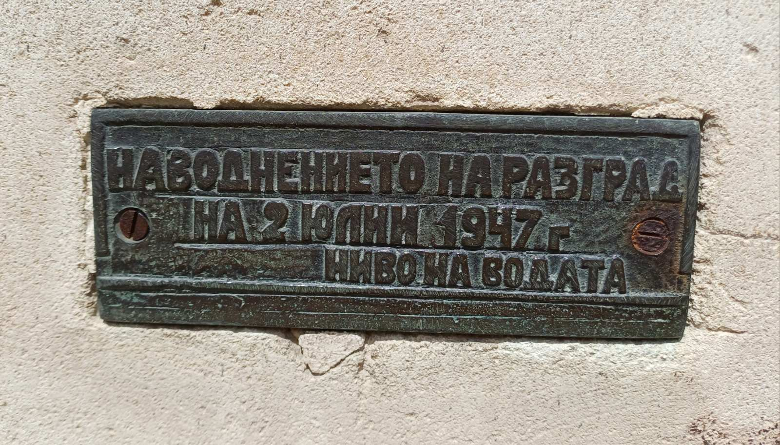 Memorial plate of 1947 flooding, near Ibrahim Pasha Mosque in Razgrad